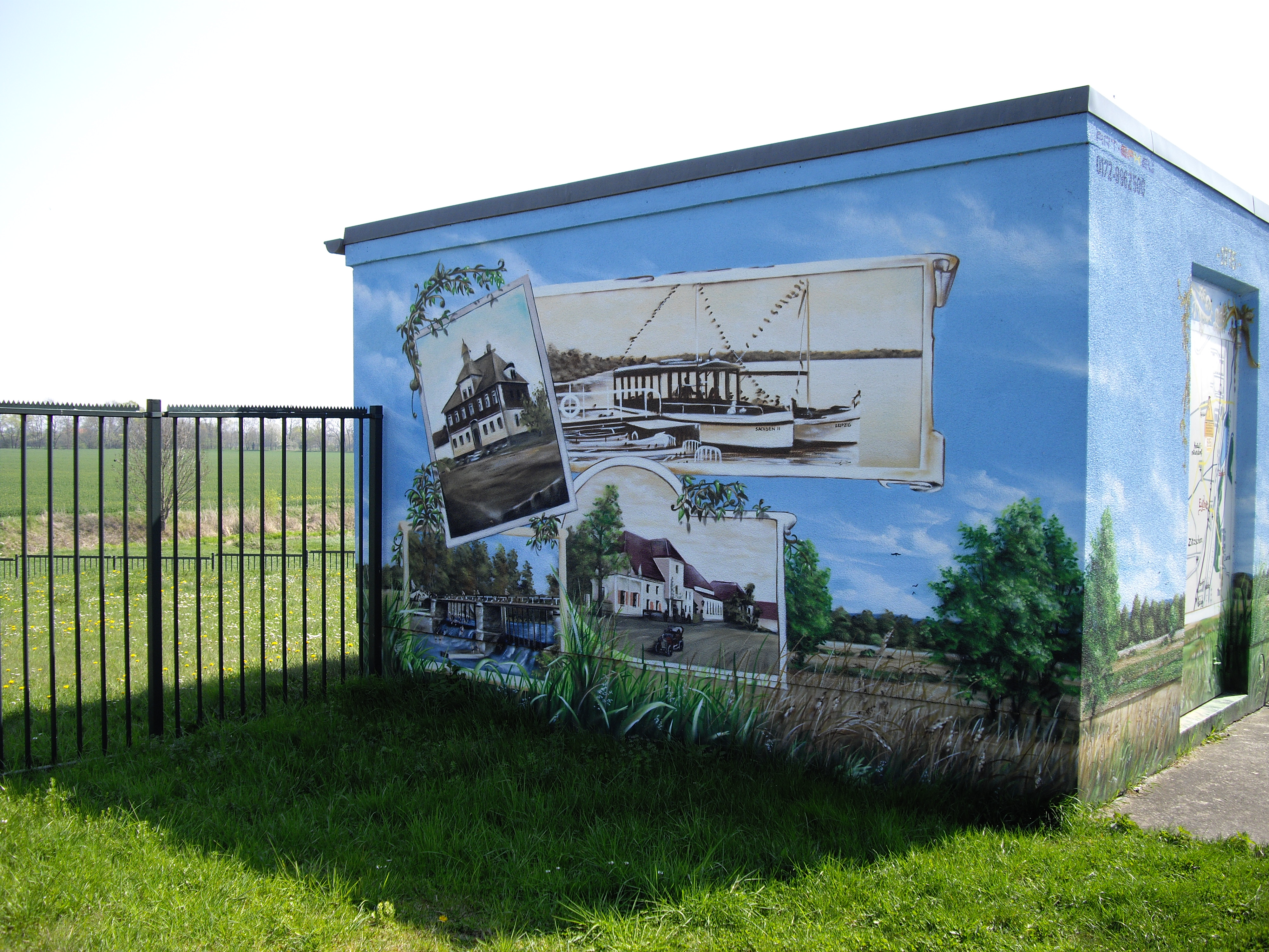 contempory art near Kleindalzig, Zwenkau, Saxony, Germany